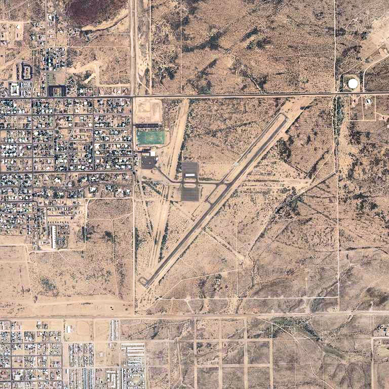 USGS digital orthophoto of Douglas Municipal Airport in Douglas, Cochise County, Arizona